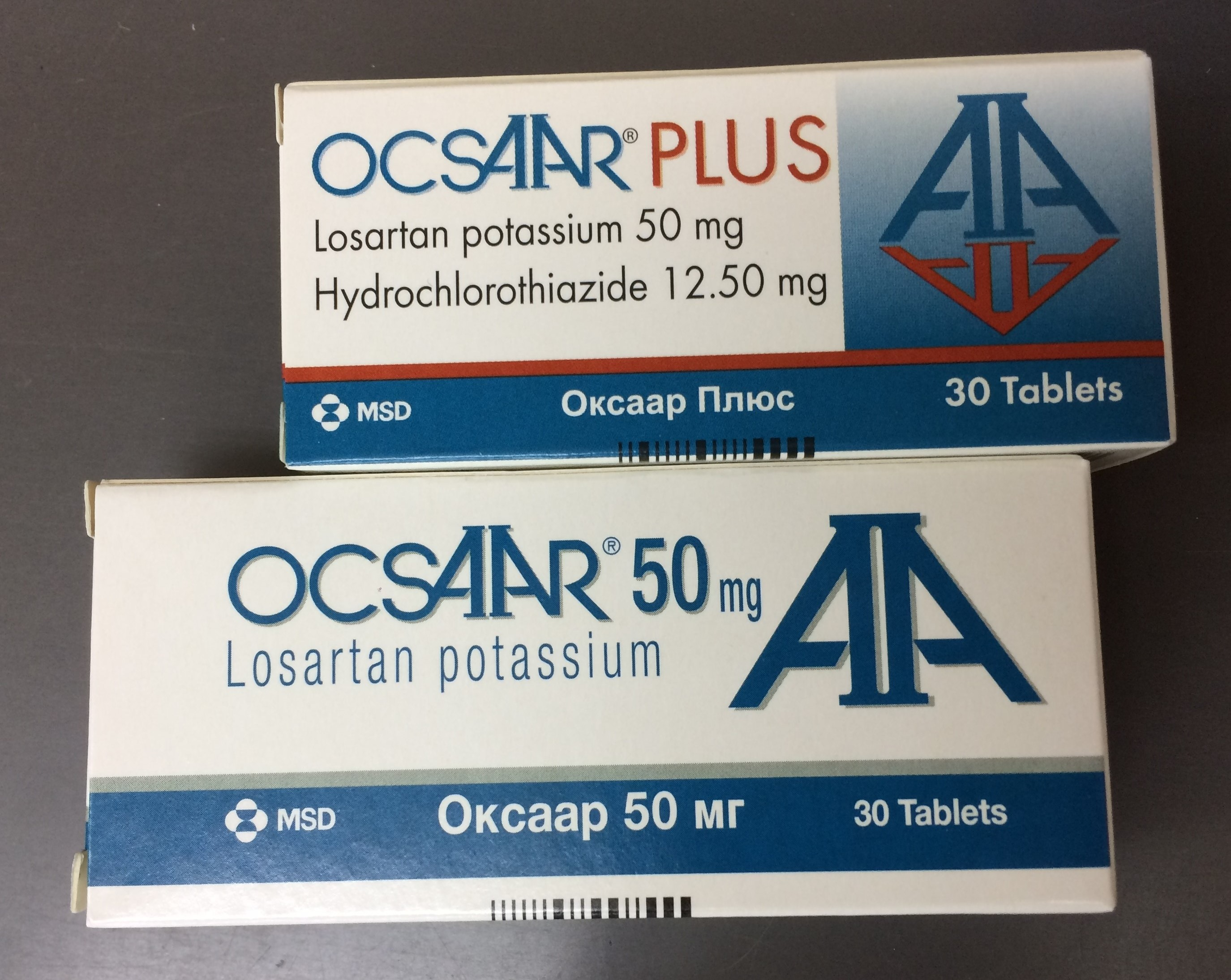 This is a photo of the the package of Ocsaar (losartan) and Ocsaar Plus (lasartan plus hydrocholothiazide). Marketed in Israel by MSD. MSD logo appears on the boxes